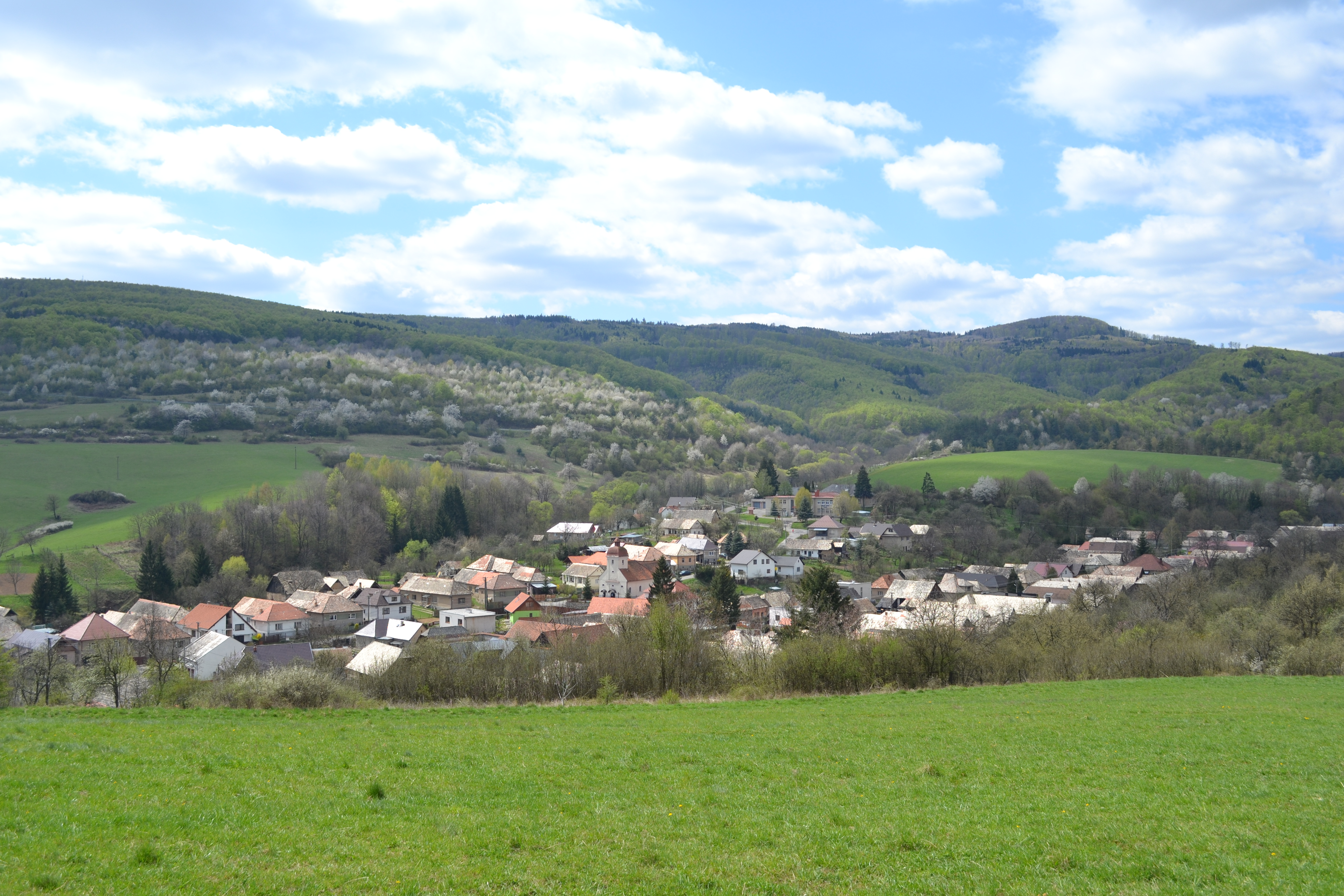 View of the village TuhárSlovenčina: Pohľad na obec Tuhár